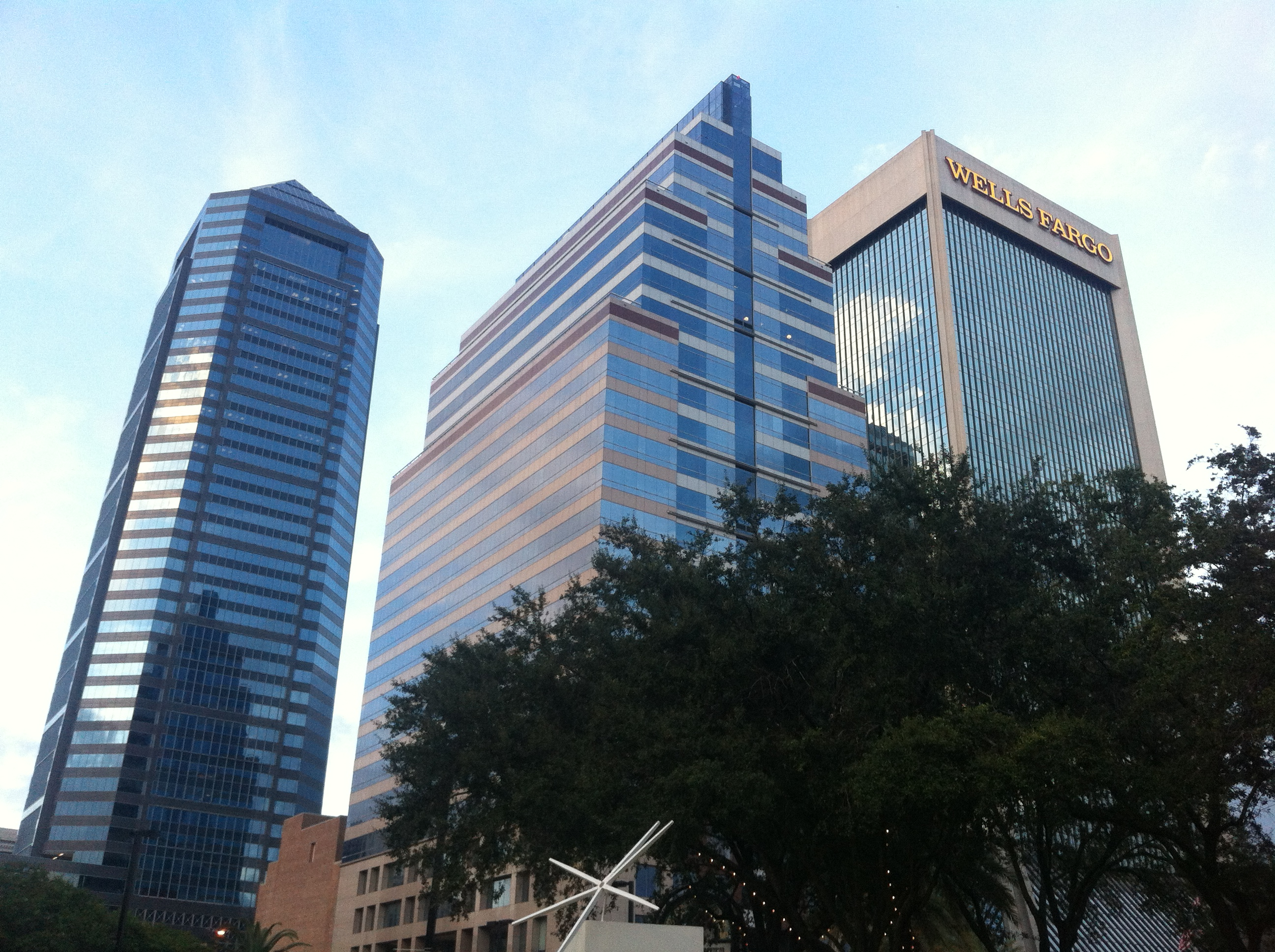 (from left to right) Bank of America Tower Suntrust Building, and Wells Fargo Center